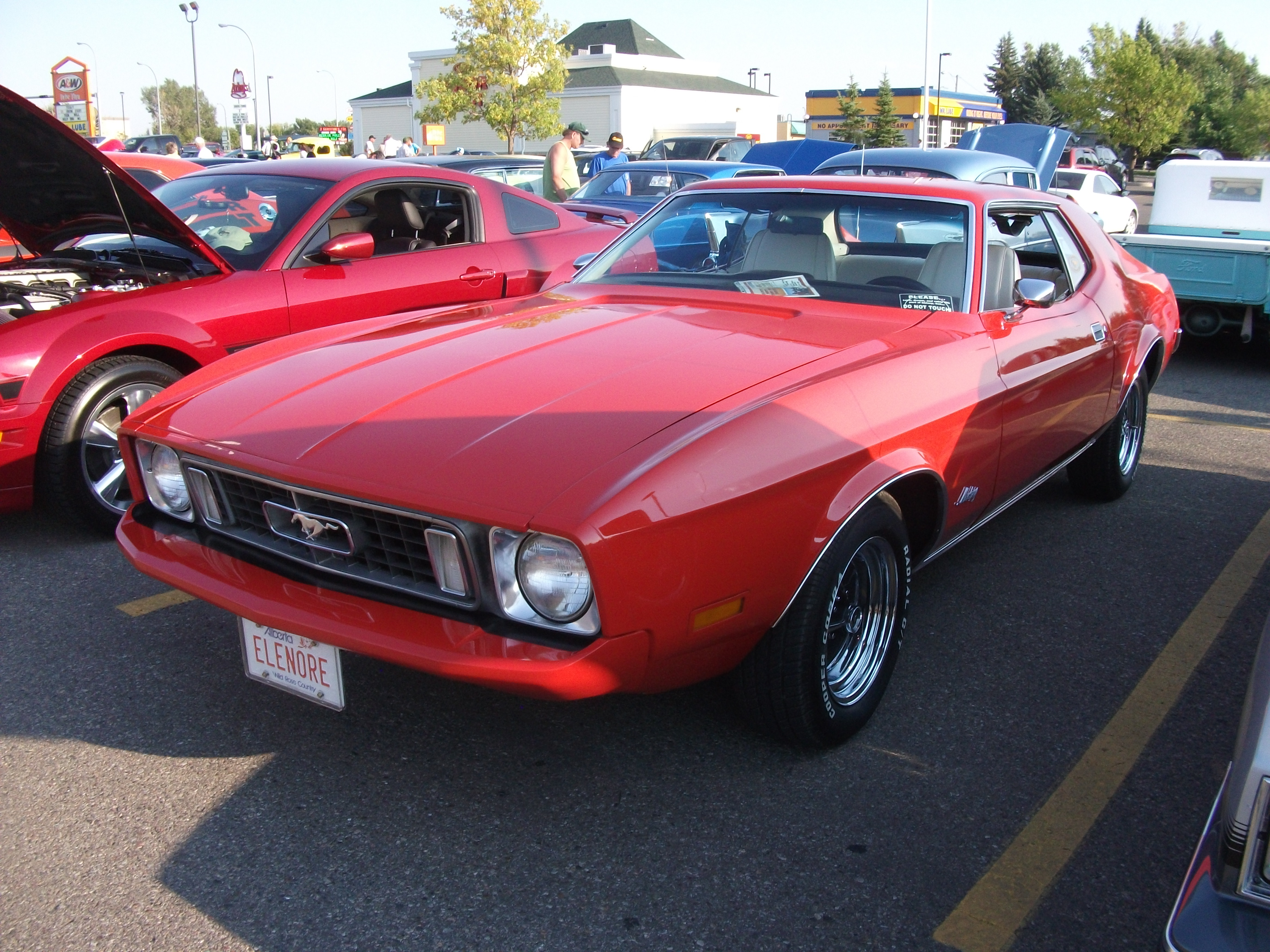 Early 70s big Ford Mustang